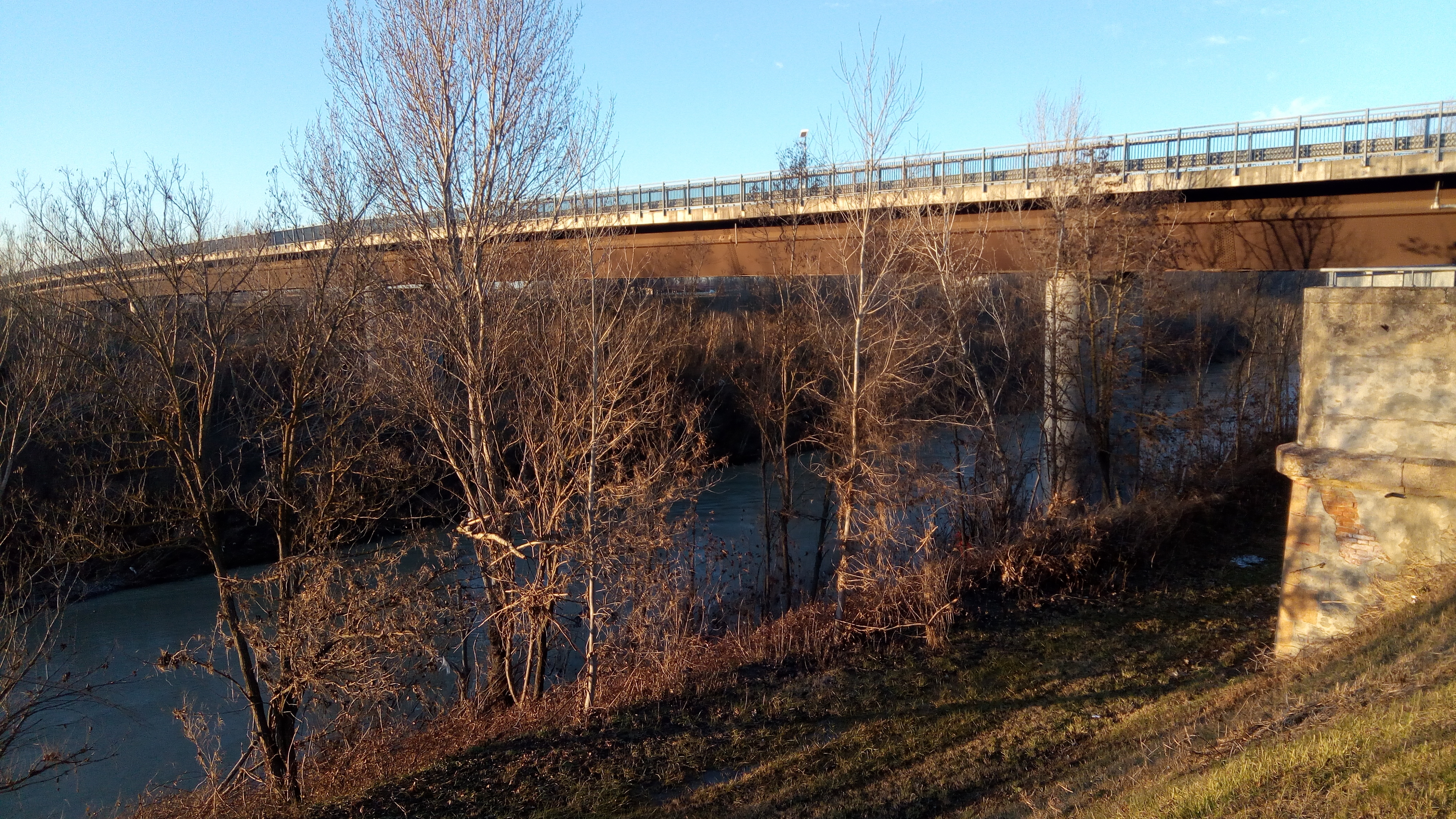 Faraboli Bridge on Taro river